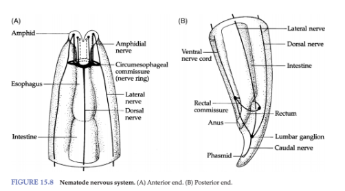 Estructura del sistema nervioso de un nematodo adulto en que se destacan los órganos sensoriales: anfidios y fasmidios